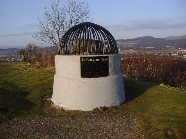 The Beheading Stone Tradition asserts that the Regent, Murdoch Stewart, 2nd Duke of Albany, his two sons and his father-in-law were beheaded here in 1425 after the return of James I from English captivity.